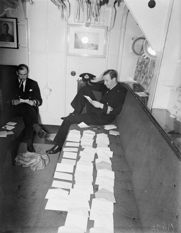 Censoring. September 1940, on Board the Destroyer HMS Kelvin, While the Ship Was in Harbour. Two officers dealing with hundreds of letters in the Wardroom.